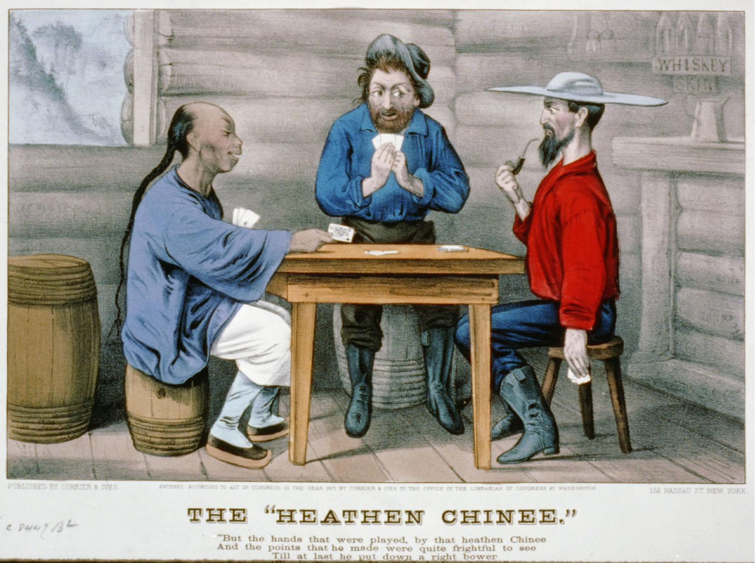 The "Heathen Chinee", hand-colored lithograph illustrating Bret Harte's 1870 narrative poem satirizing anti-Chinese sentiment in northern California.